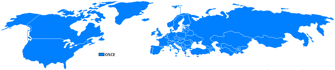 OSCE countries map